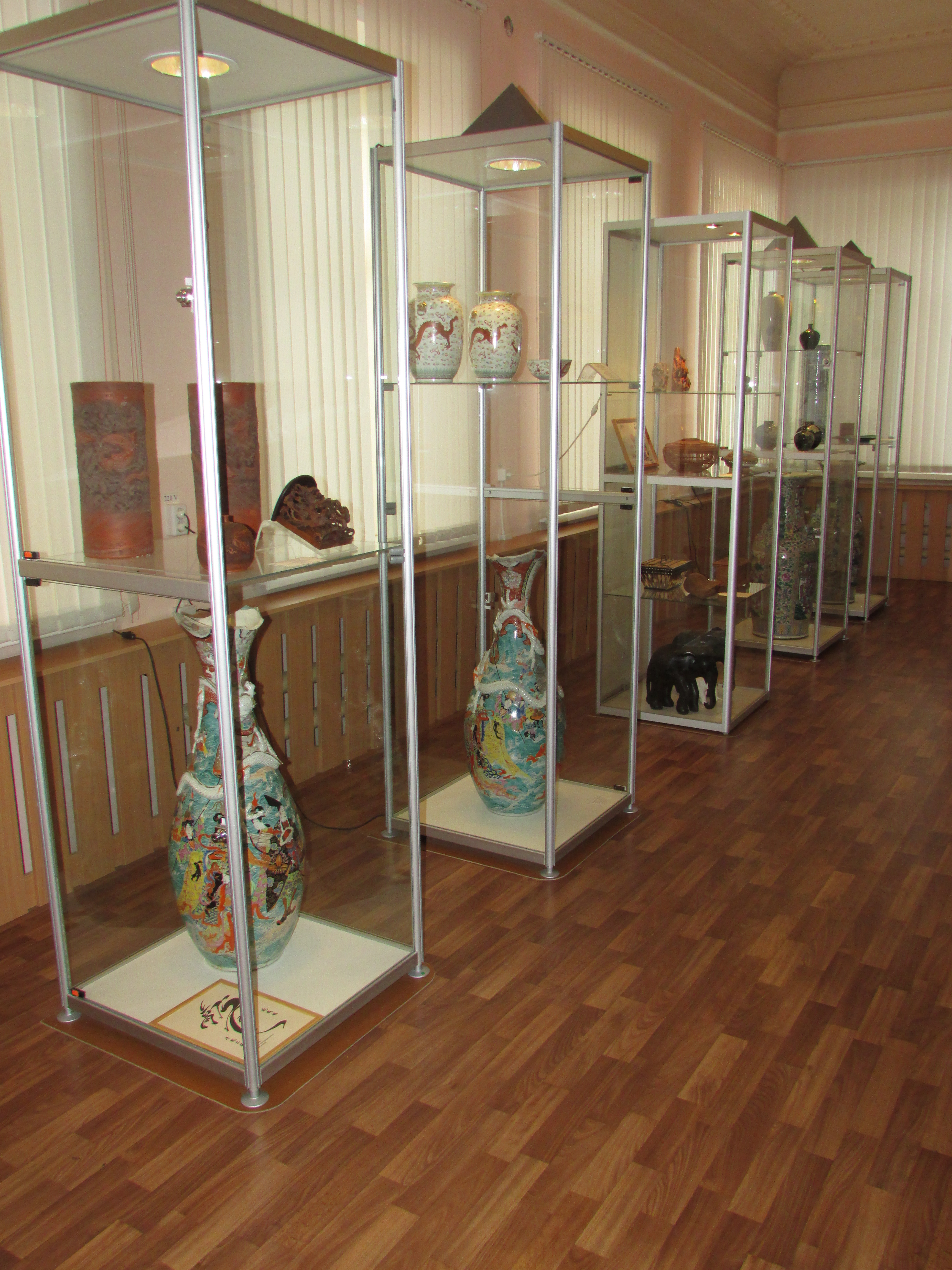 Экспозиция "Восточная коллекция"